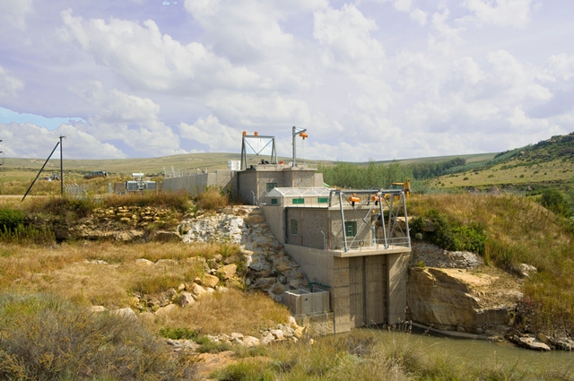 The Merino Power station shown from the front